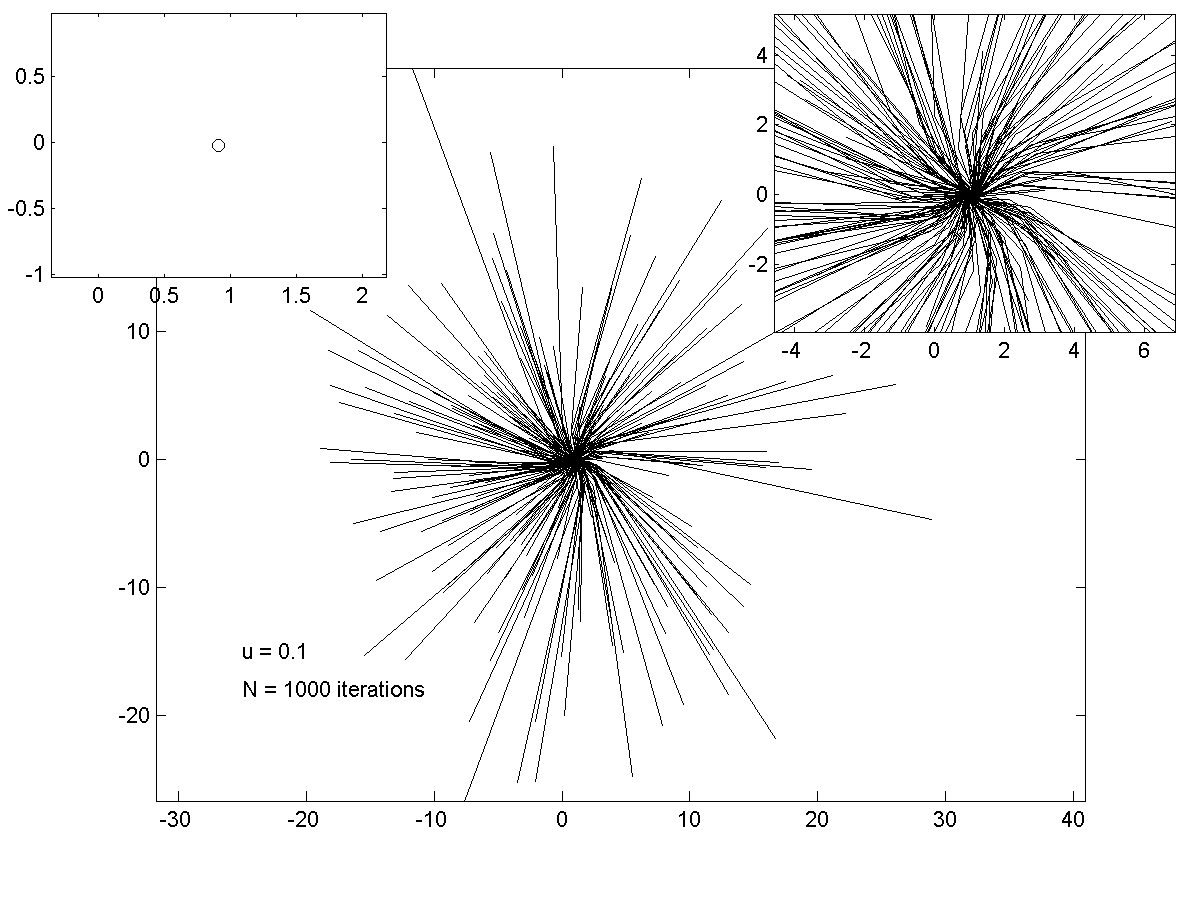 Ikeda trajectory plot made using MATLAB